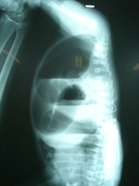 Invertogram showing a high blind pouch in a newborn undergoing primary SSARP. A blind distal pouch within 1 cms from the last vertebral bone can be corrected by this approach.